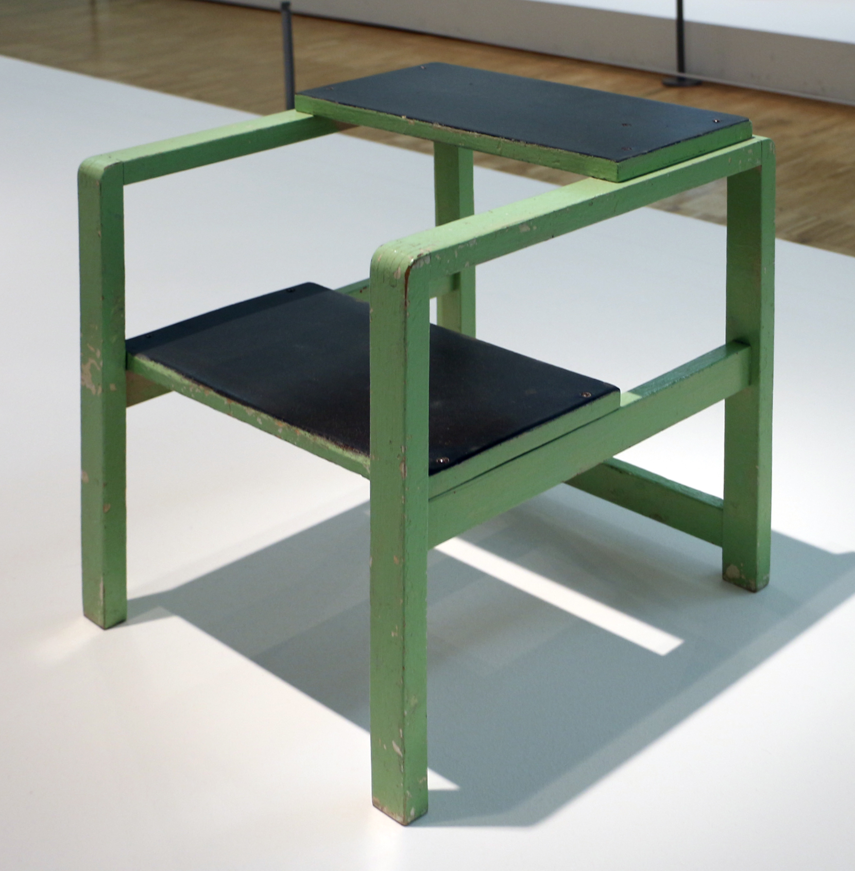 Decorative arts in the Musée national d'art moderne